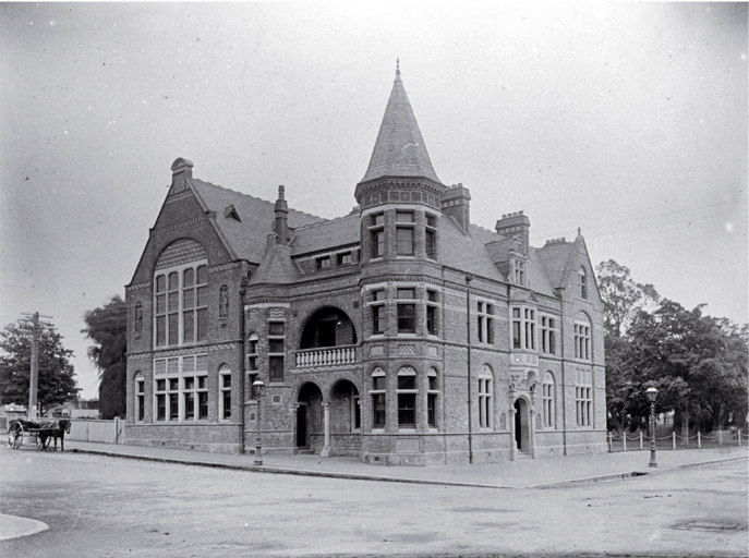 The Christchurch City Council Chambers on the north-west corner of Oxford Terrace and Worcester Street .